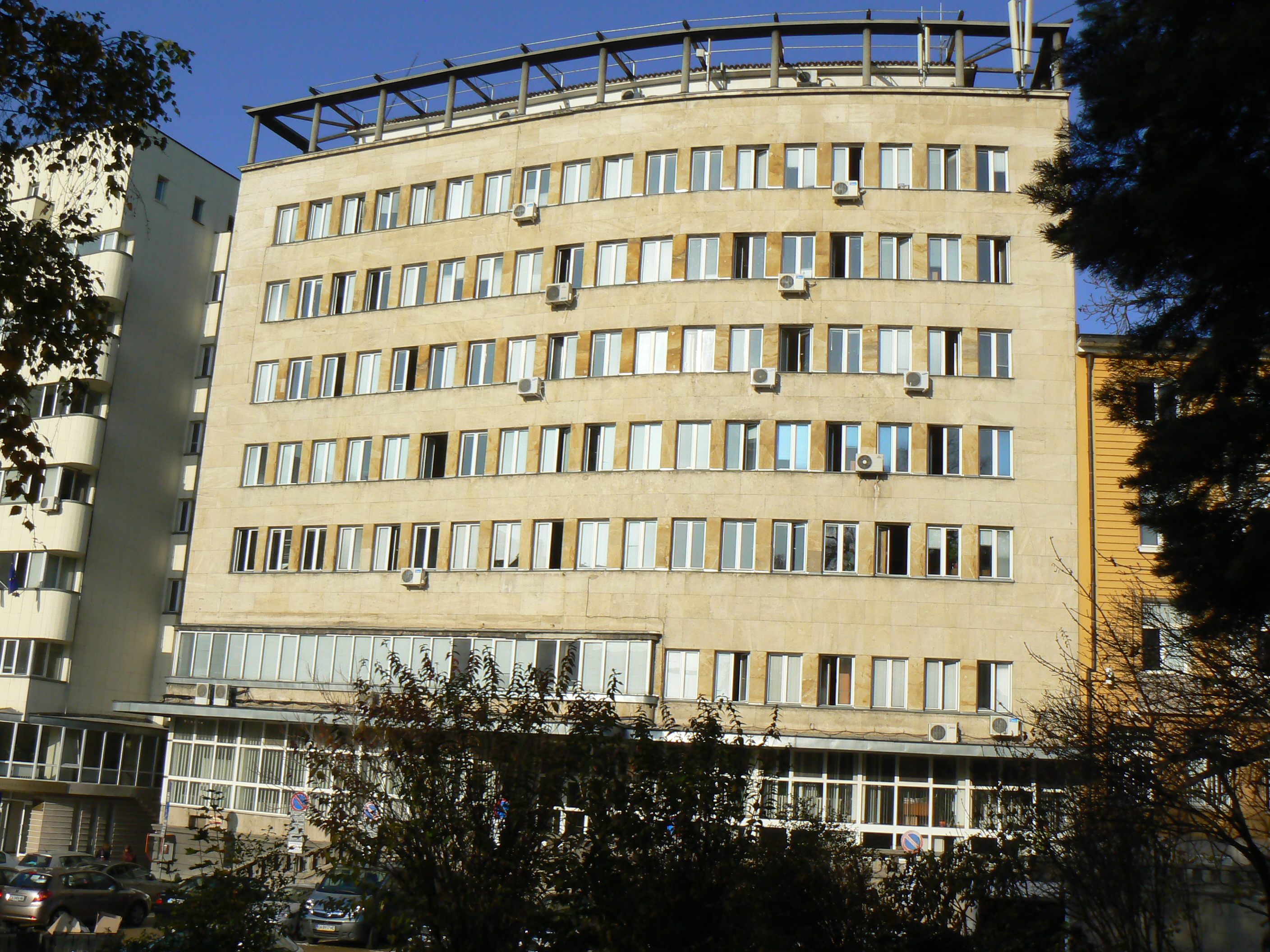 Building of the Bulgarian State Archives Agency. Sofia, 5 Moskovska Str.